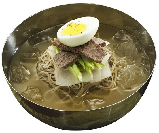 Noodles made with buckwheat and starch. Served in a chilled beef broth with pickled radish, sliced Korean pear and a hard-boiled egg. It is often served with a side dish of vinegar and mustard.